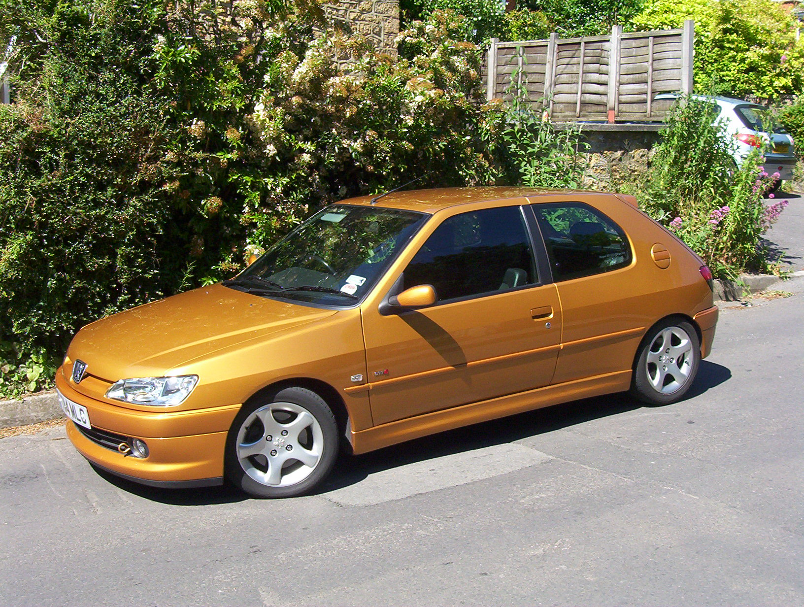 Peugeot 306 GTI6